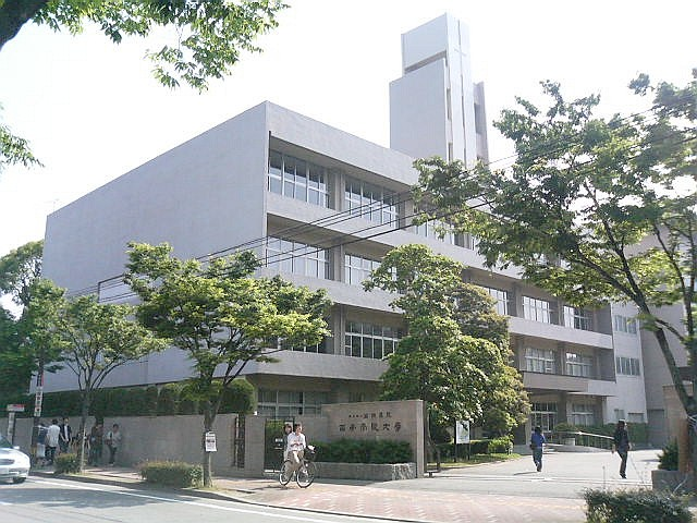 Seinan Gakuin University, Fukuoka, Japan.